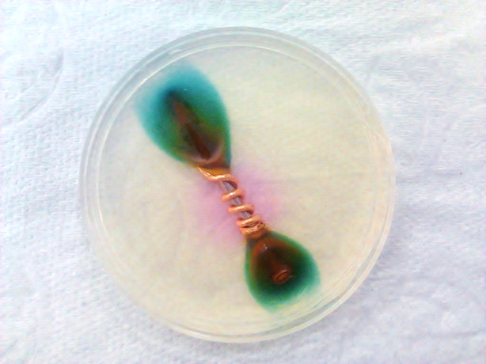 Corrosion of a iron nail with a coiled copper wire, in agar-agar medium with ferroxyl indicator solution (potassium hexacyanoferrate(III), indicator of iron ions, and phenolphthalein, indicator of hydroxide ions). Results obtained after 3 days. Due to presence of copper, the iron is corroded faster because it is the sacrificial metal in this case. The blue color near the iron indicates the presence of iron ions in the medium (iron oxidation - anodic zone) and pink near the copper indicates the presence of hydroxide ions in the medium (oxygen reduction - cathodic zone).